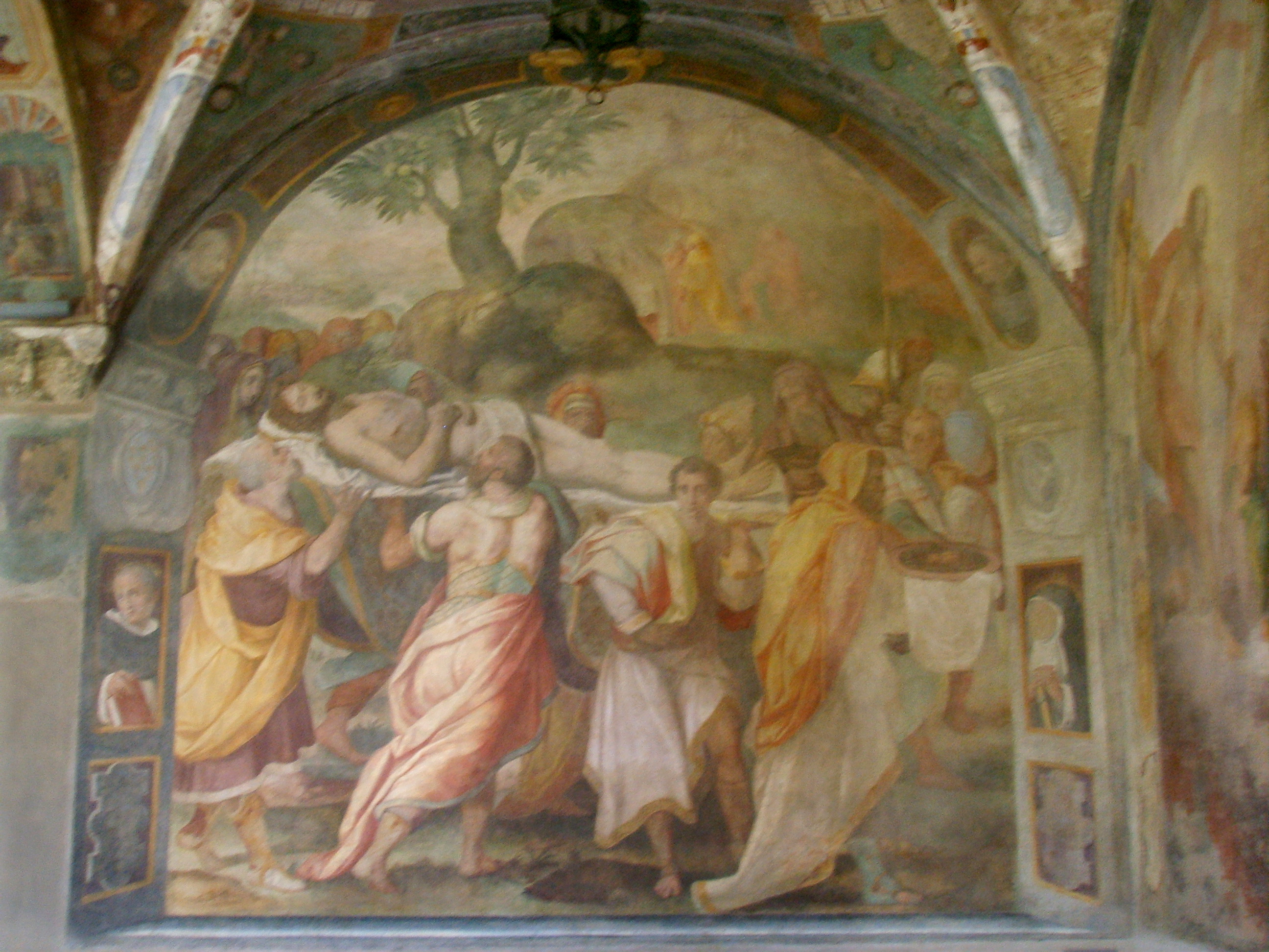 Chiostro Grande in Santa Maria Novella church fresco in Florence, Italy